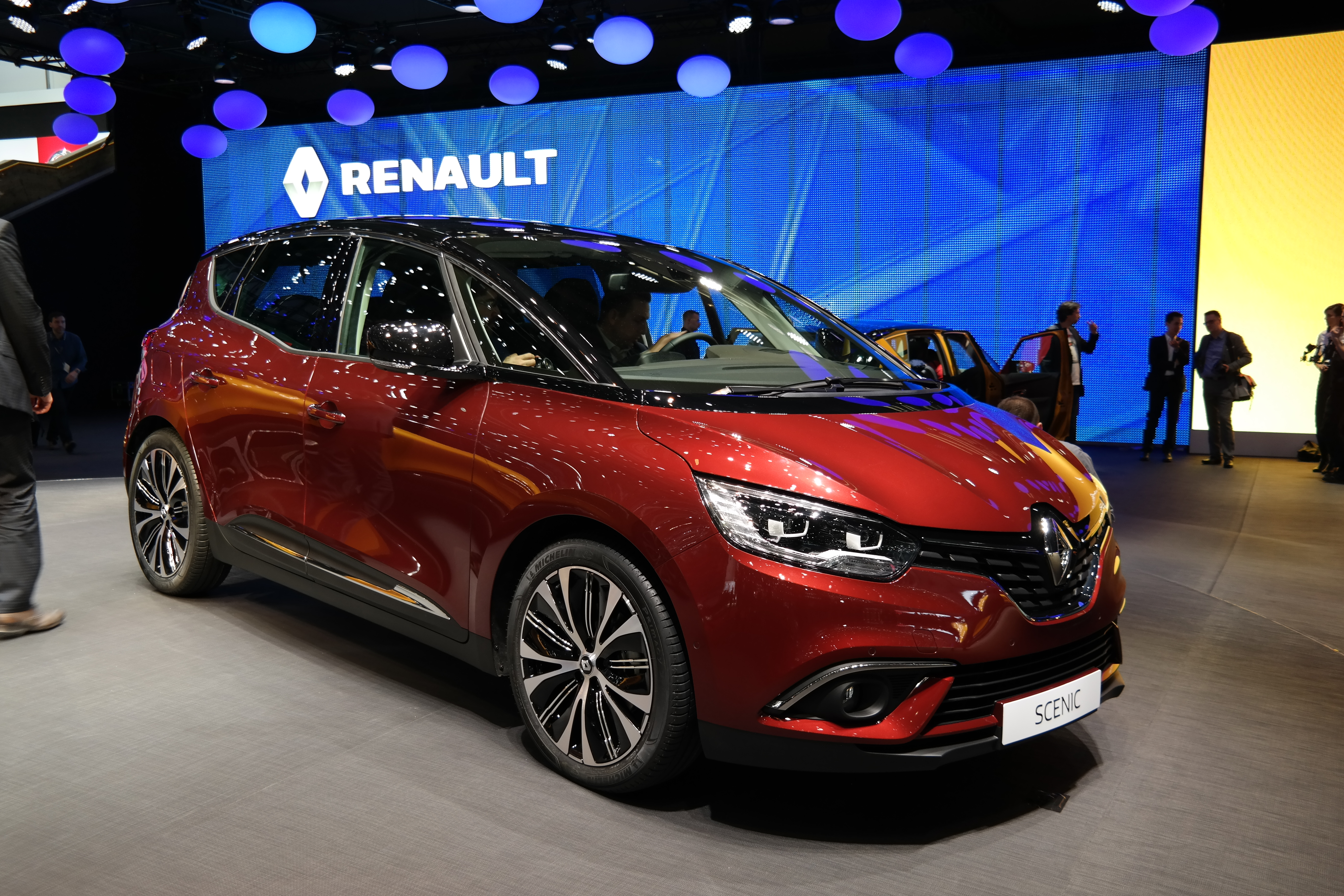 Geneva Motor Show 2016 (photo taken on the first press day)